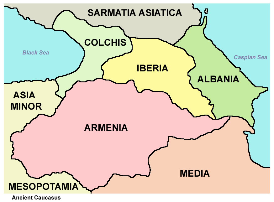 Map of ancient Caucasus - Armenia, Colchis, Iberia, Albania.